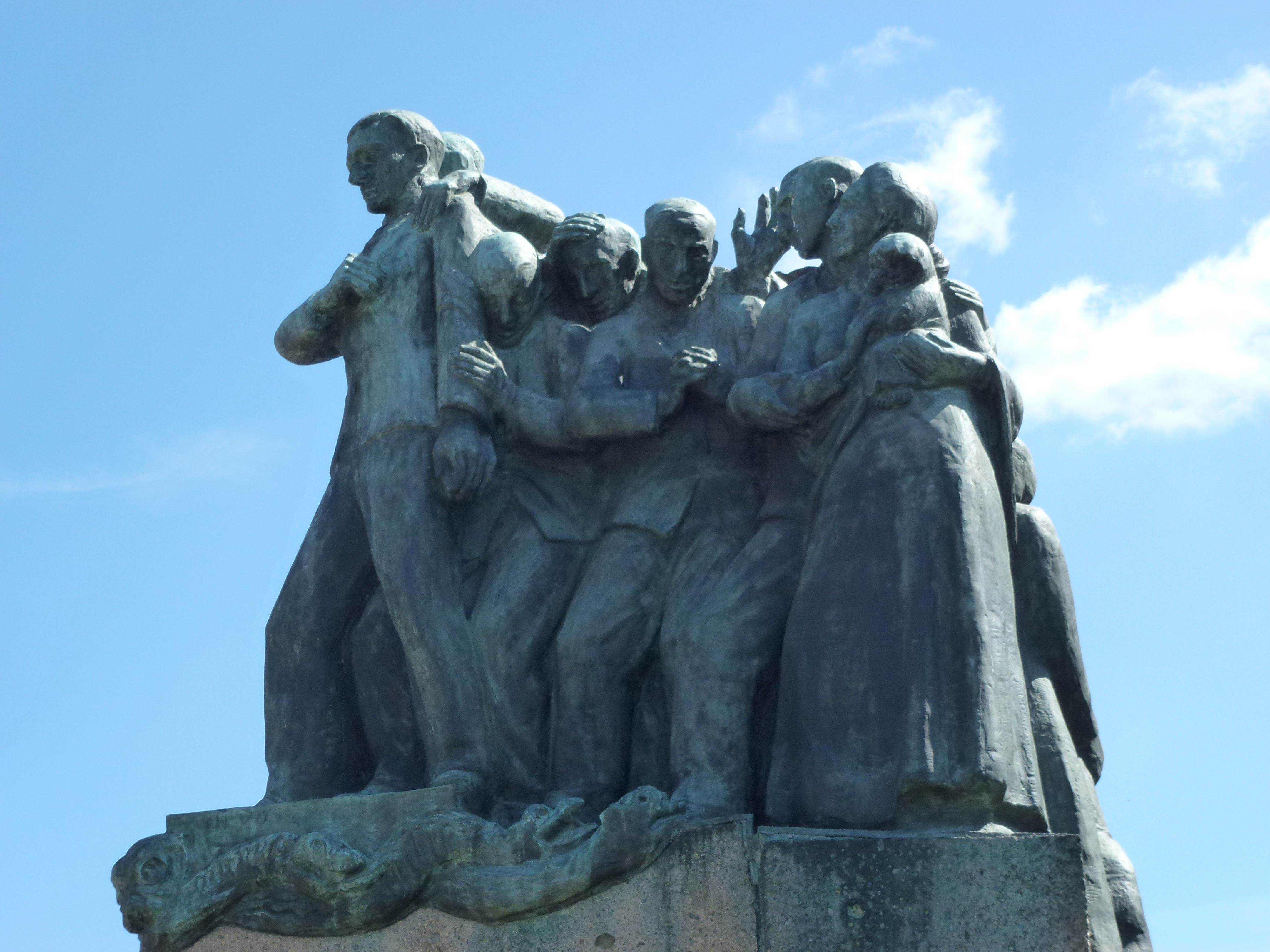 Roermond, verzetsmonument (westzijde)